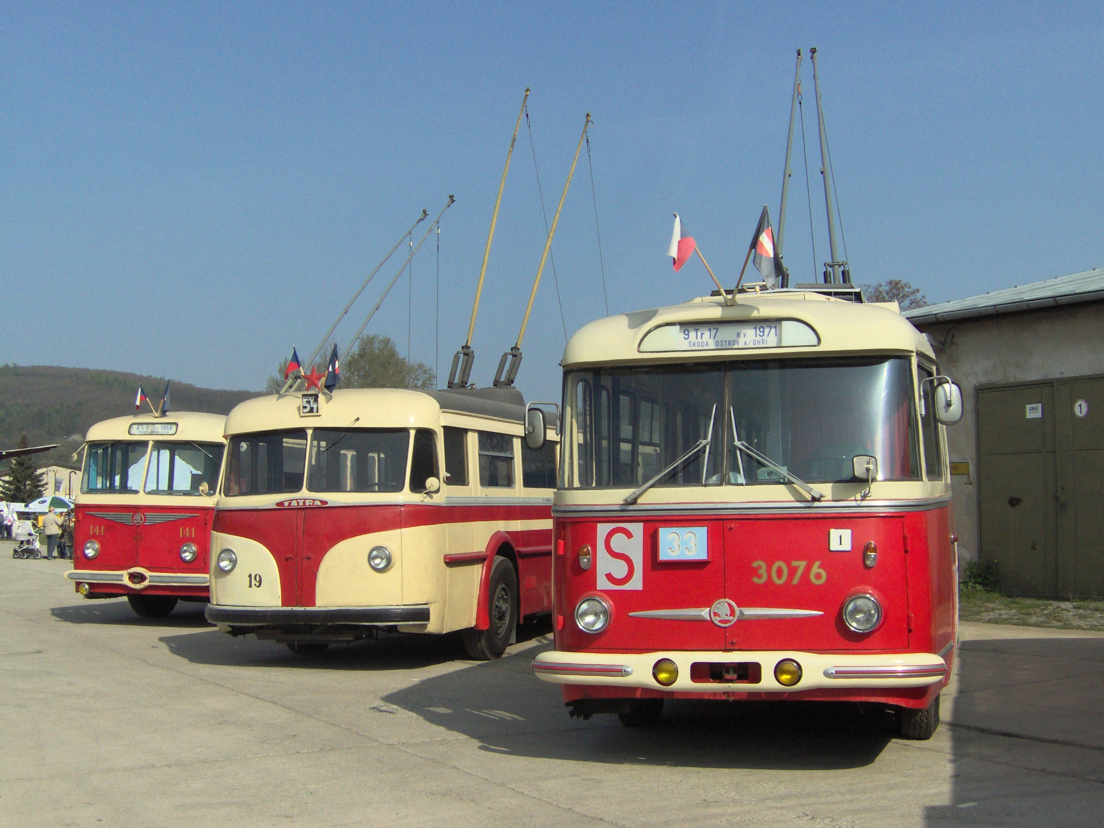 Historical trolleybuses (from left to right) Škoda 8Tr, Tatra T 400 and Škoda 9Tr in Brno, Czech Republic